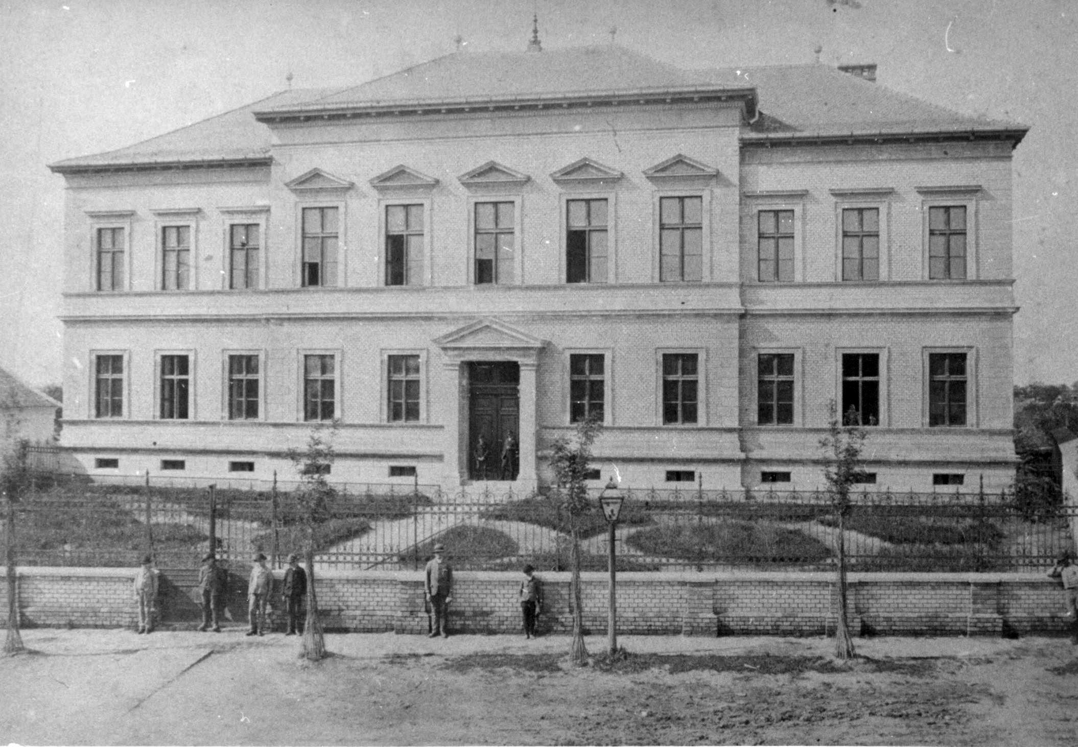 The Főgymnázium (high school) in Szentes Town (1888)